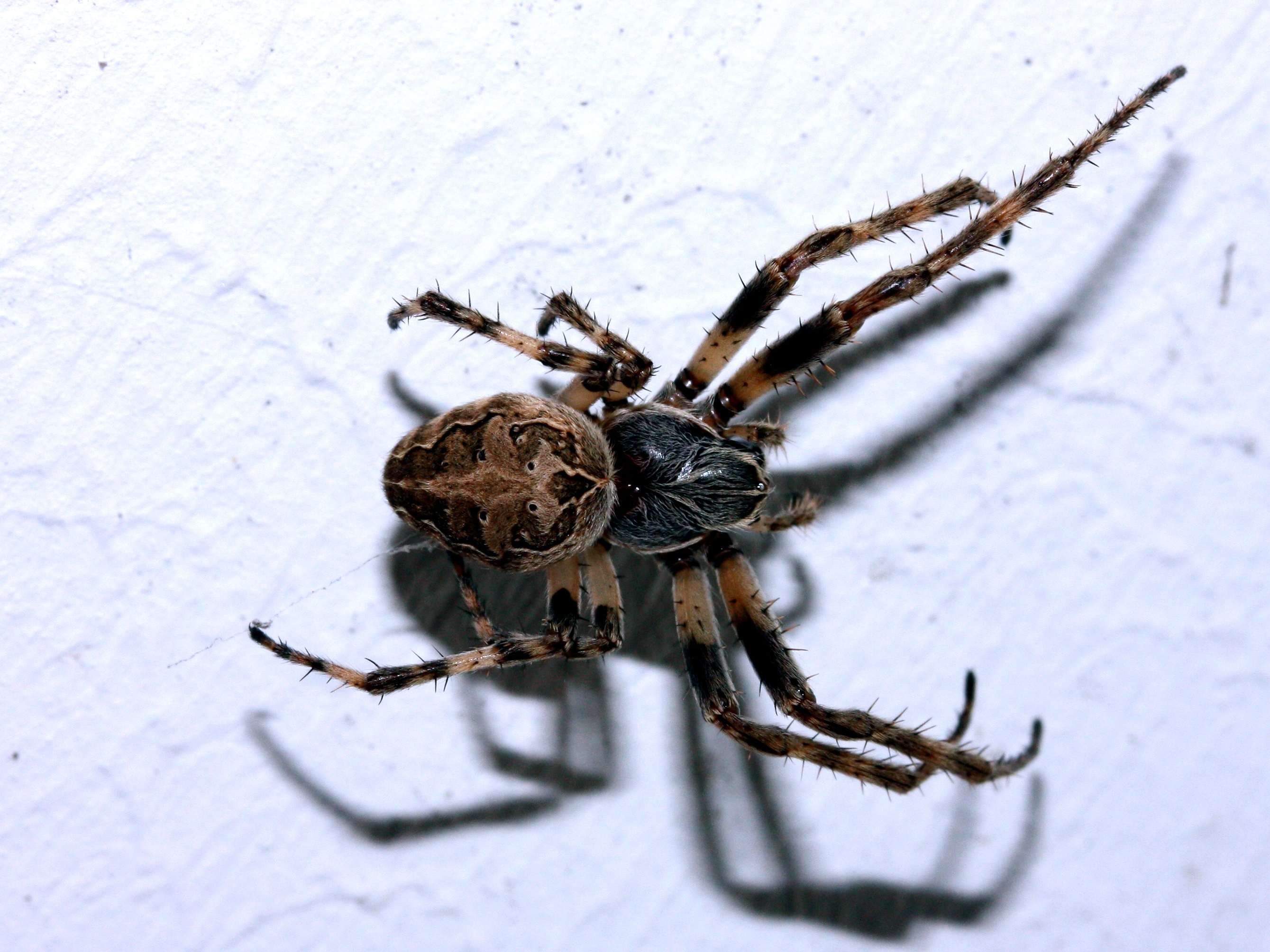 Found a big one (4-5 cm with legs) of the species, which are all around our flat. See what happened to it minutes after I took the shot.